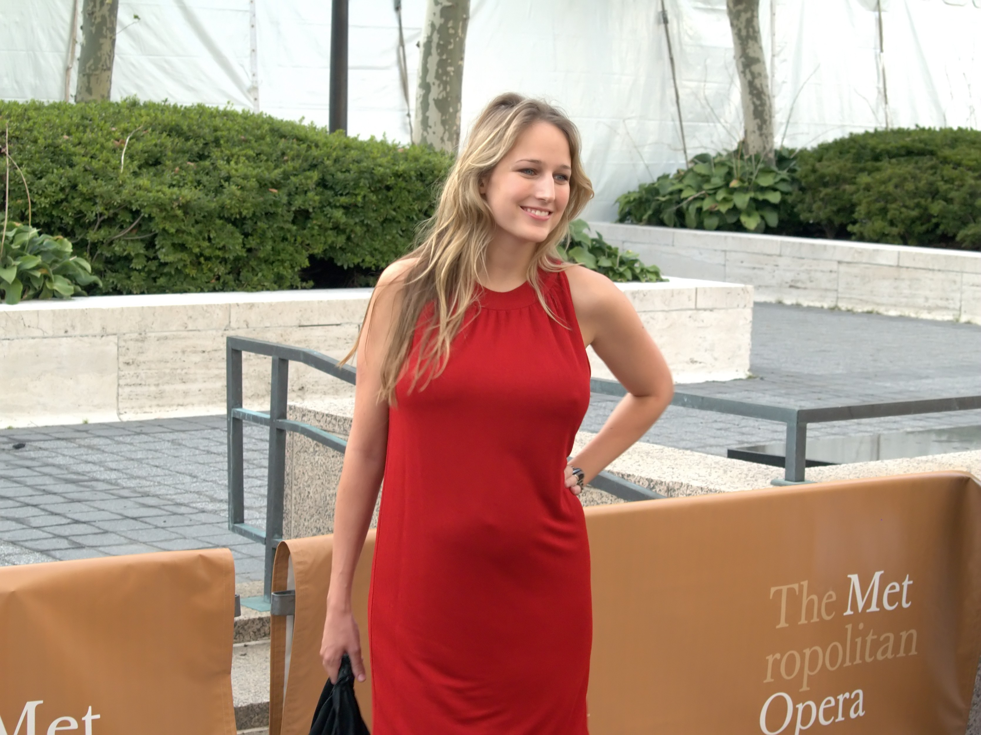 Leelee Sobieski at the 2009 premiere of the Metropolitan Opera in New York City. Photographer's blog post about event and photograph.